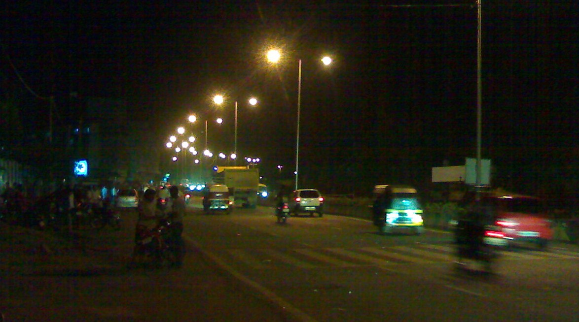 Sinhagad Road at Night Pune City